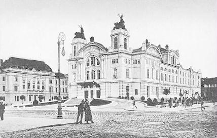 Hungarian Theater in Kolozsvár, built in 1906. Now Romanian National Theater Cluj.